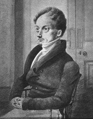 Portrait of James Mill